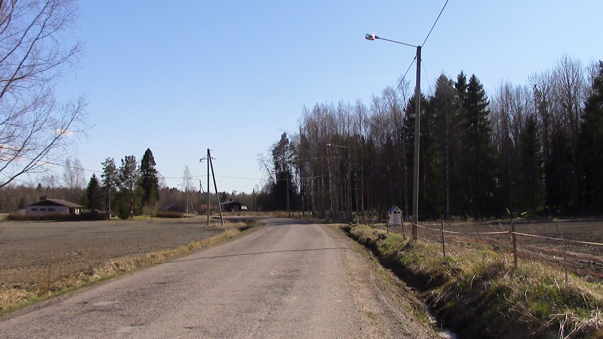 Järvikylä village road in Nakkila, Finland. The village is located at northwestern side of Leistilänjärvi.